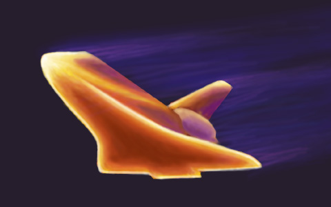 Computer simulation of the heating of a space shuttle orbiter upon reentry. Temperatures on the exterior of the shuttle can reach 3,000 °F (1,650 °C) during this phase of flight.